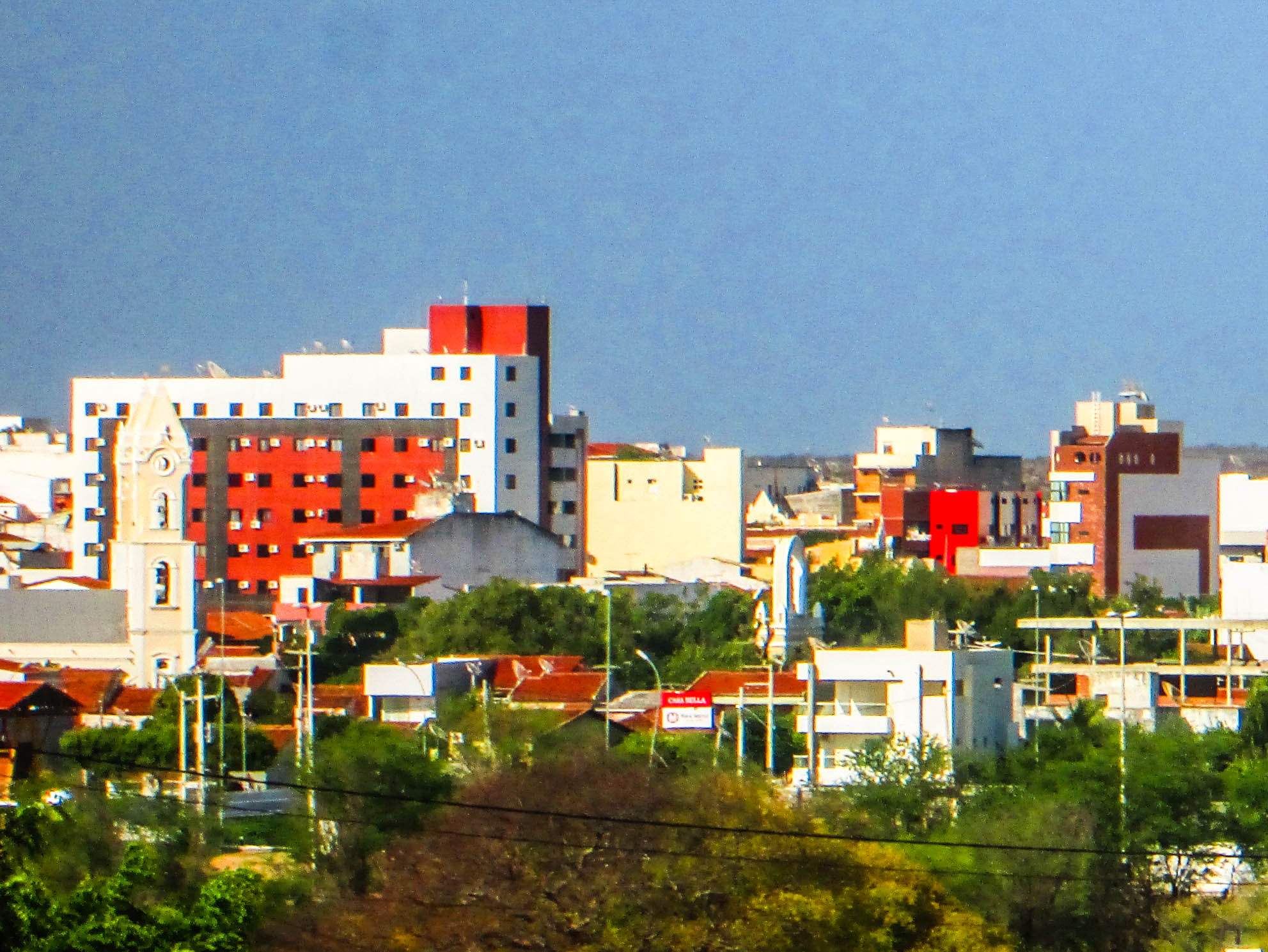 Urbanism.